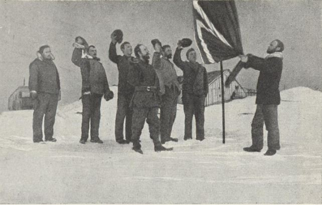 National Day celebration for the participants at The Norwegian Aurora Polaris Expedition 1902-1903. Svalbard, Norway. From the book, The Norwegian Aurora Polaris Expedition 1902-1903, Volume 1: On the Cause of Magnetic Storms and The Origin of Terrestrial Magnetism, Section 2. Chapter VI: p. 3030